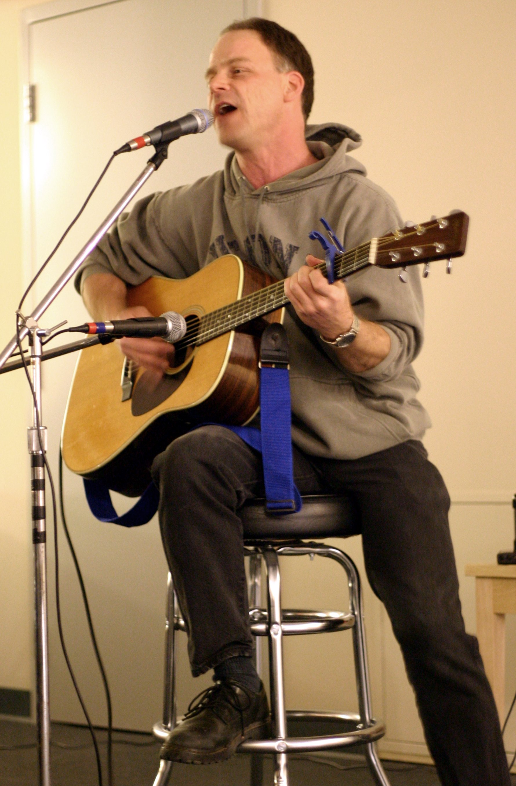 Folk singer Hugh Blumenfeld, performing at the University of Connecticut's Rainbow Center.